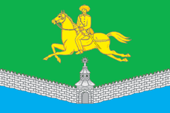 Flag of Severskoe rural settlement, Krasnodar Territory, Russia